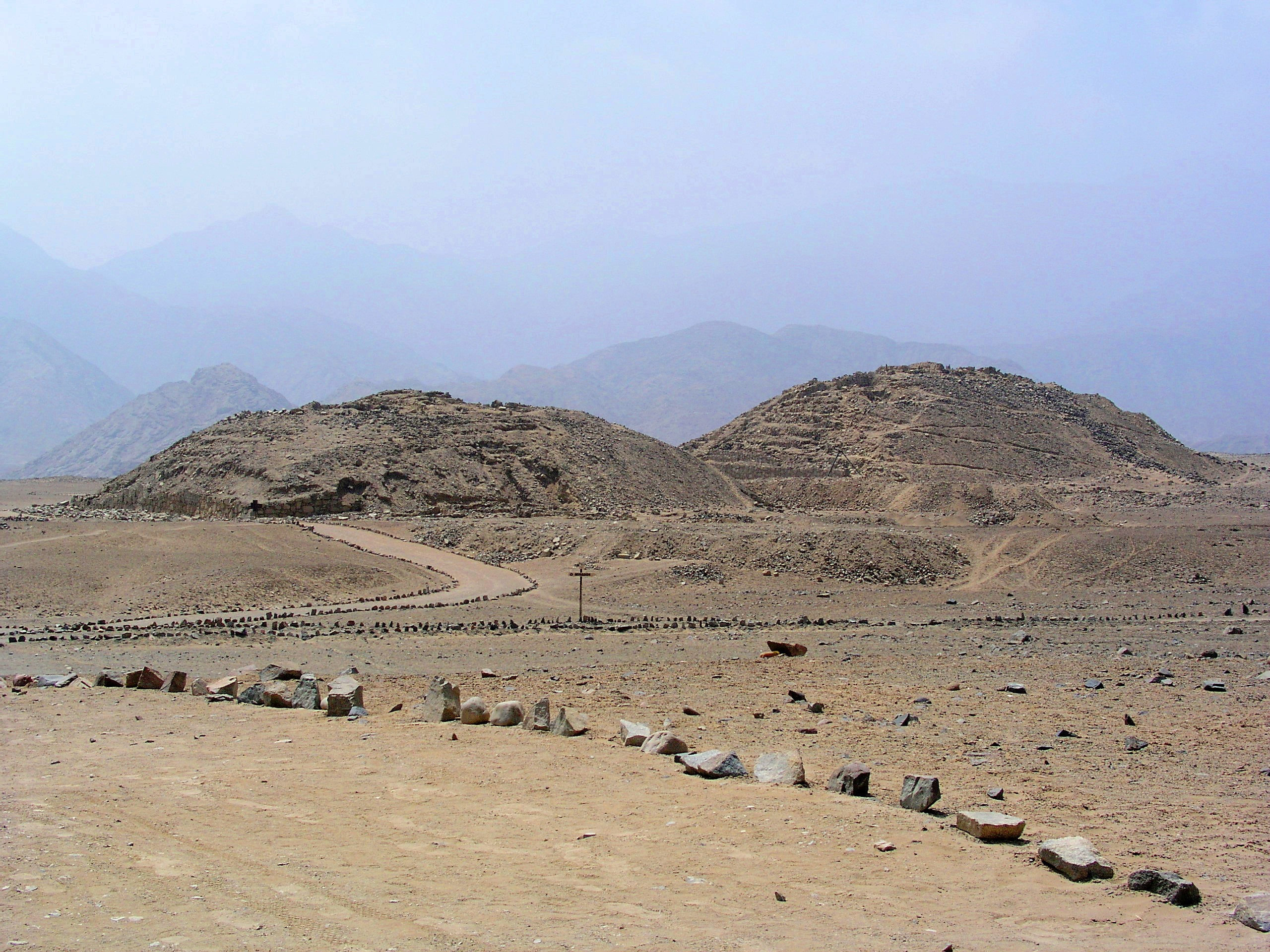 Pirámides en Caral, Valle de Supe, Region Lima, Peru This is a retouched picture, which means that it has been digitally altered from its original version. Modifications: Saturation and Brightness altered by Kyle Thayer.